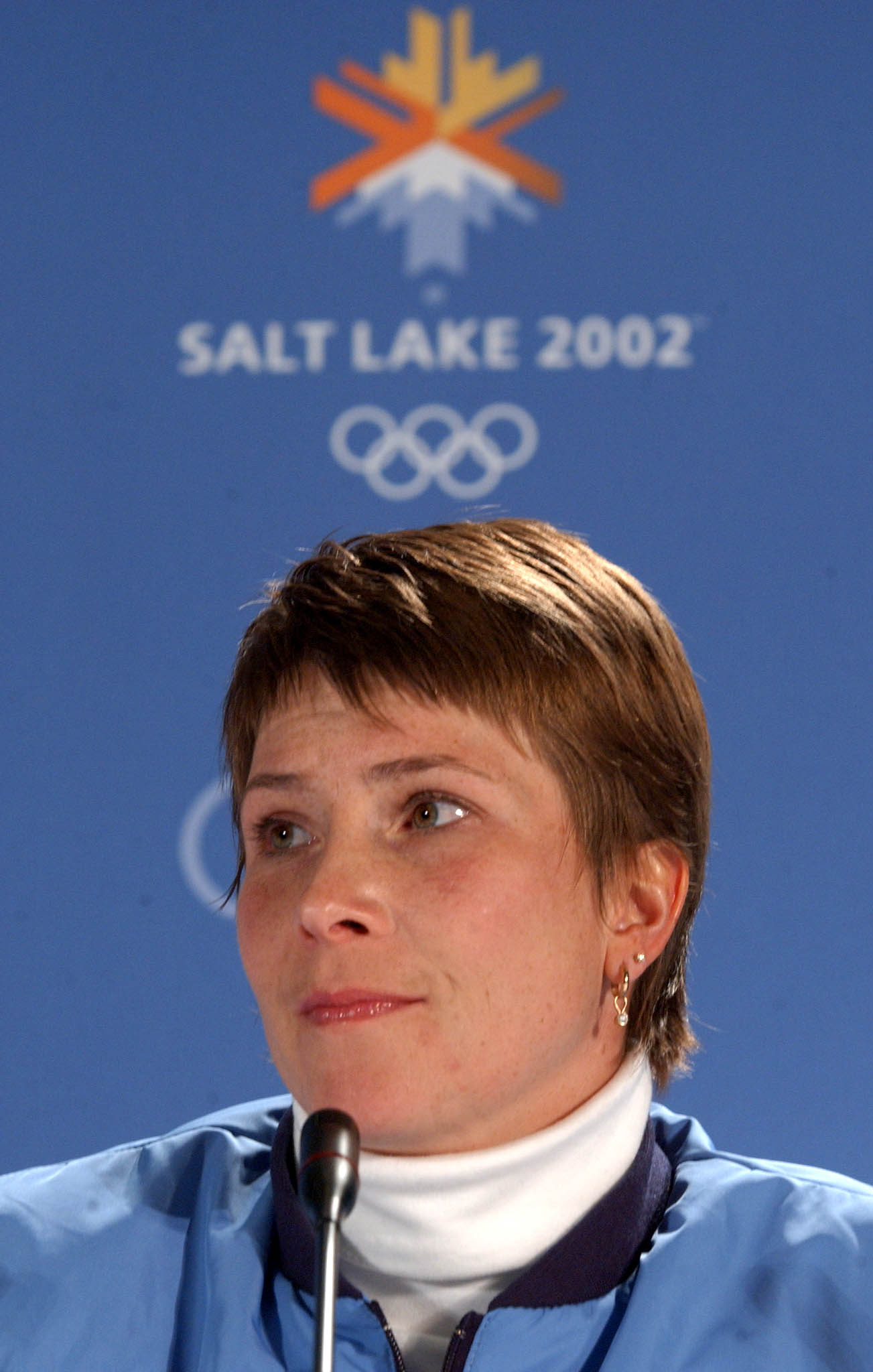 020207-N-3995K-004 Salt Lake City, Utah (Feb. 7, 2002) – Biathlete Sgt. Kristina Sabasteanski answers questions at a press conference held prior to the commencement of the 2002 Olympic Winter games. During opening ceremonies, Sabasteanski will be one of the Olympic team members to carry the tattered American flag which was found and flown over ground zero in Manhattan, NY, after the terrorist attack of September 11. U.S. Navy photo by Journalist 1st Class Preston Keres. (RELEASED)